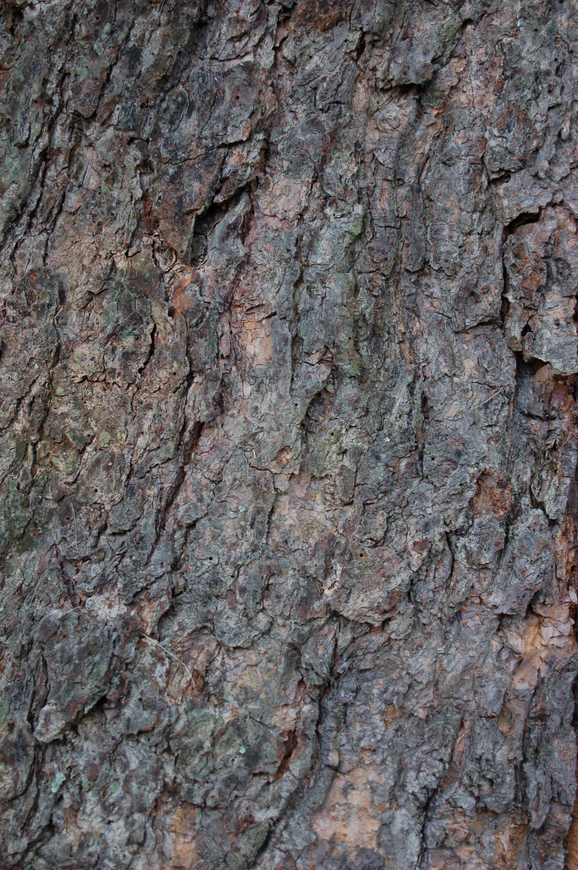 Photograph of the River Birchen (Betula nigra en ). Photo taken at the Tyler Arboretum where it was identified.